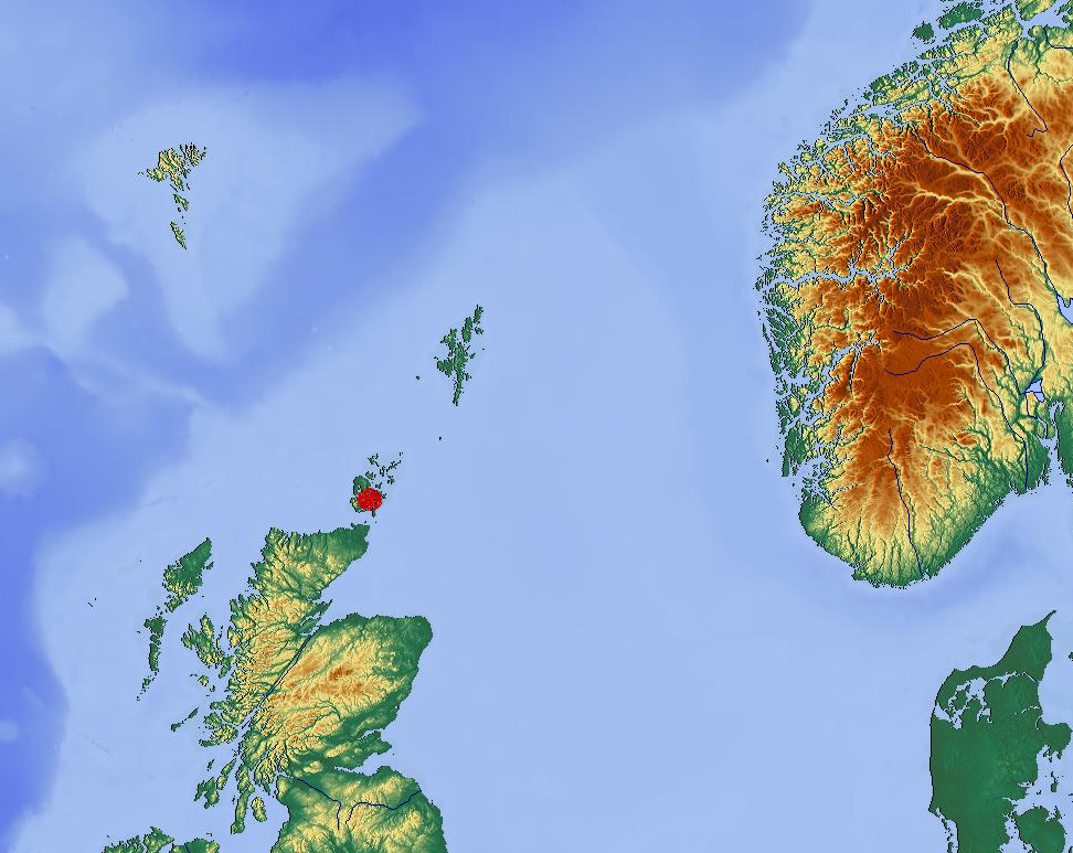 Location of Scapa Flow on Scotland Map